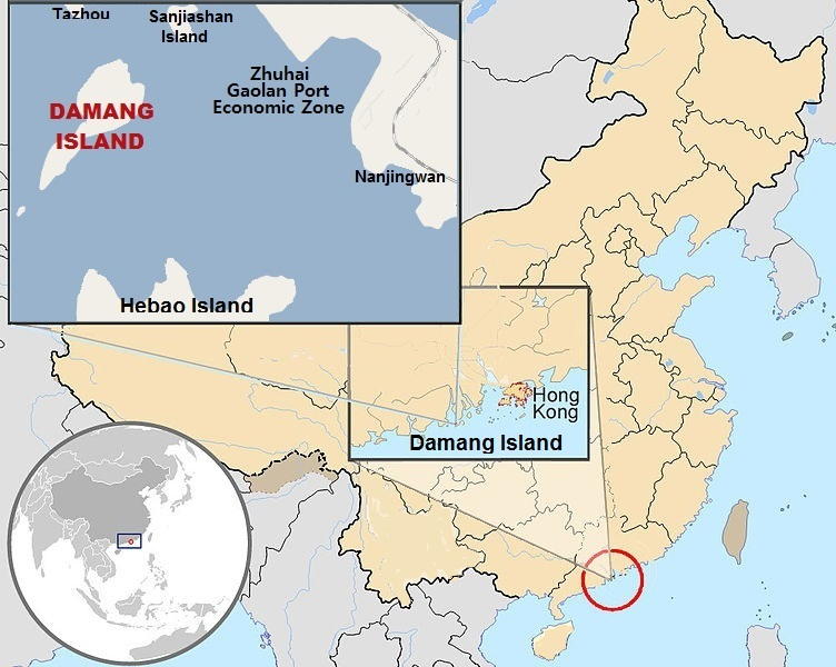 Map showing Hebao Island's location in Asia, off China's south coast, and in relation to Hong Kong